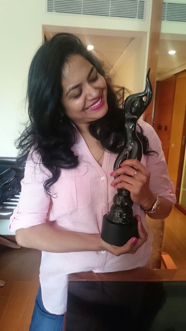 Film fare award pic